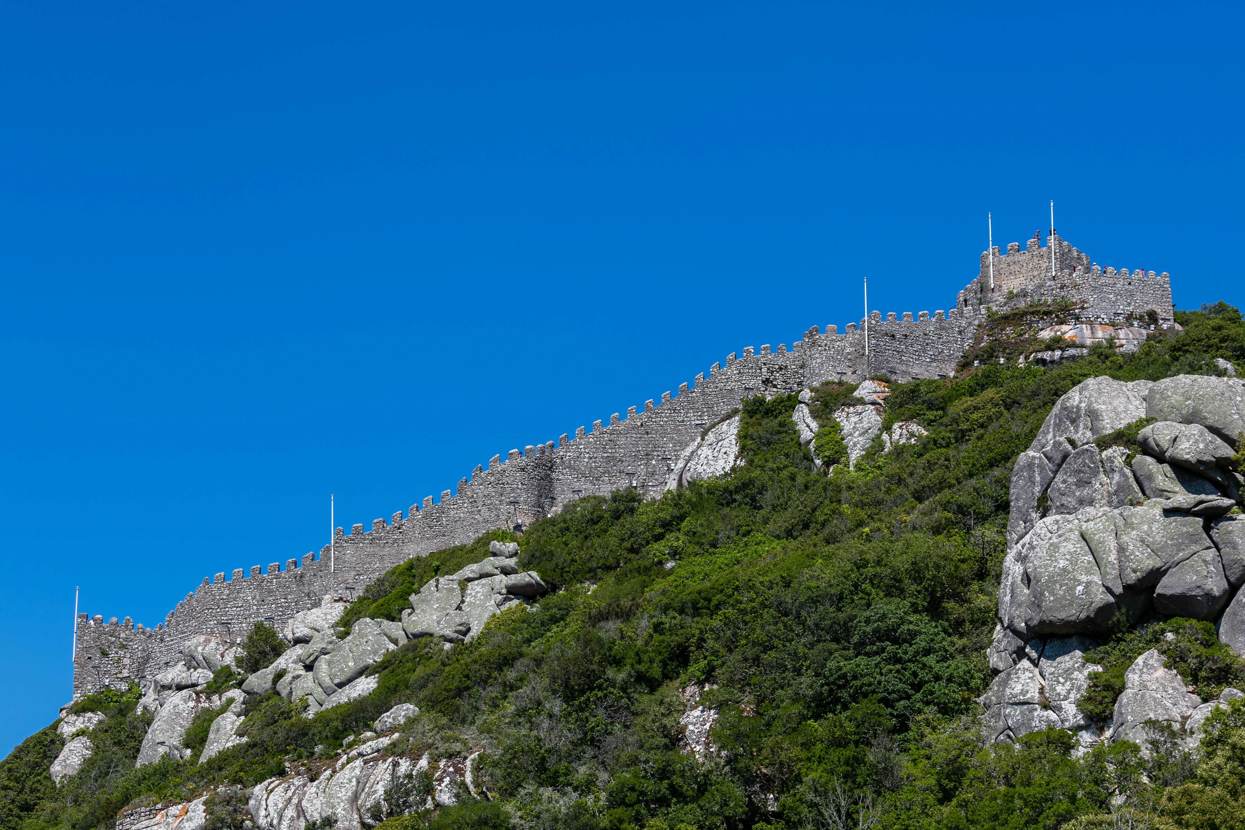 Castelo dos Mouros, Sintra, Portugal